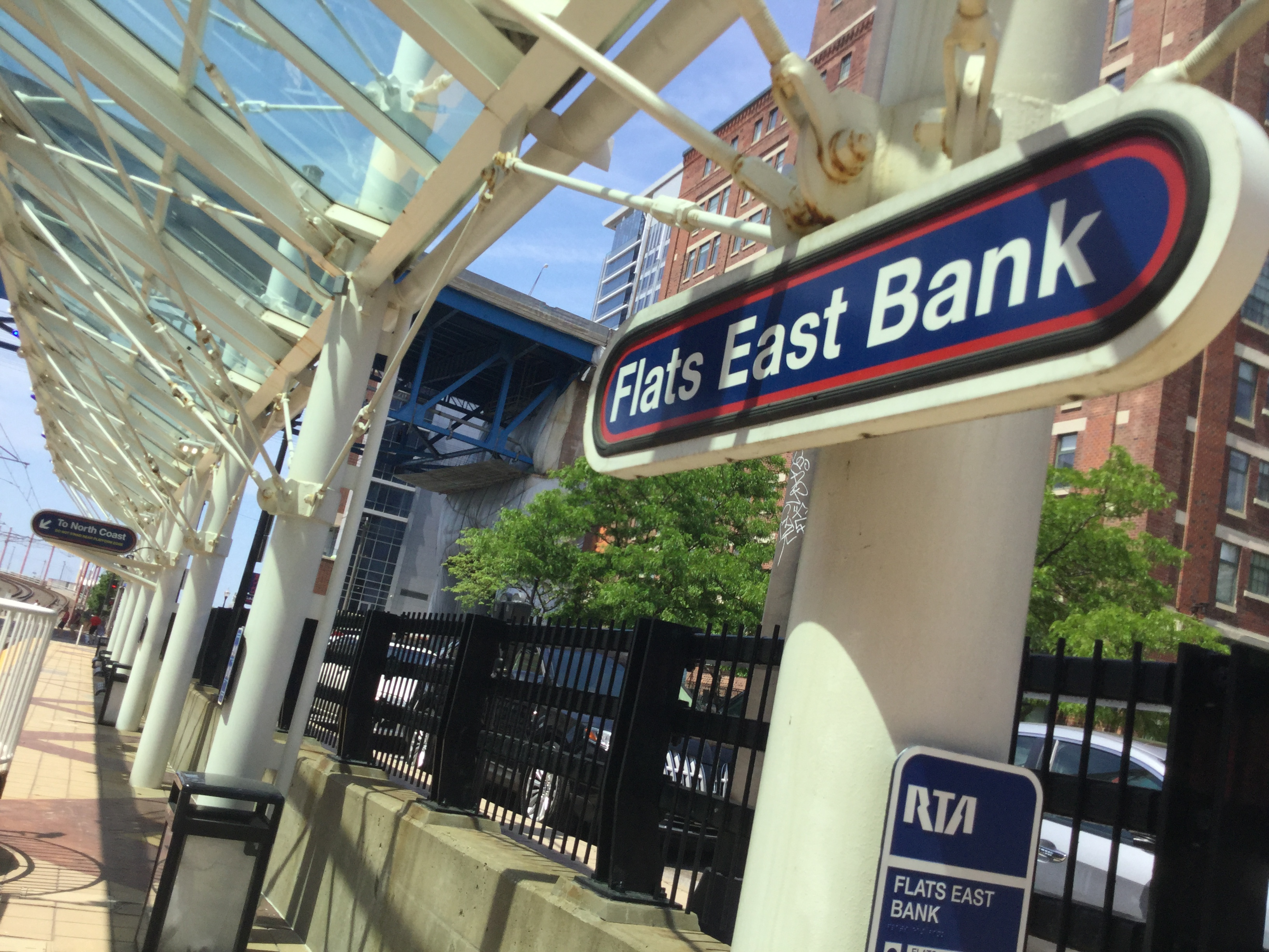 RTA station